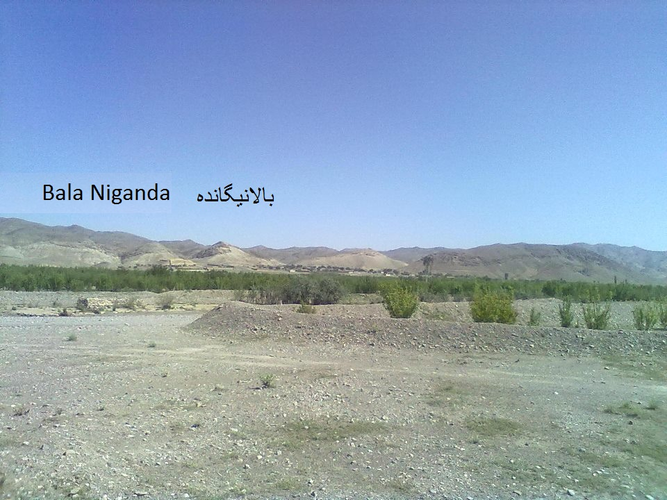 View from south